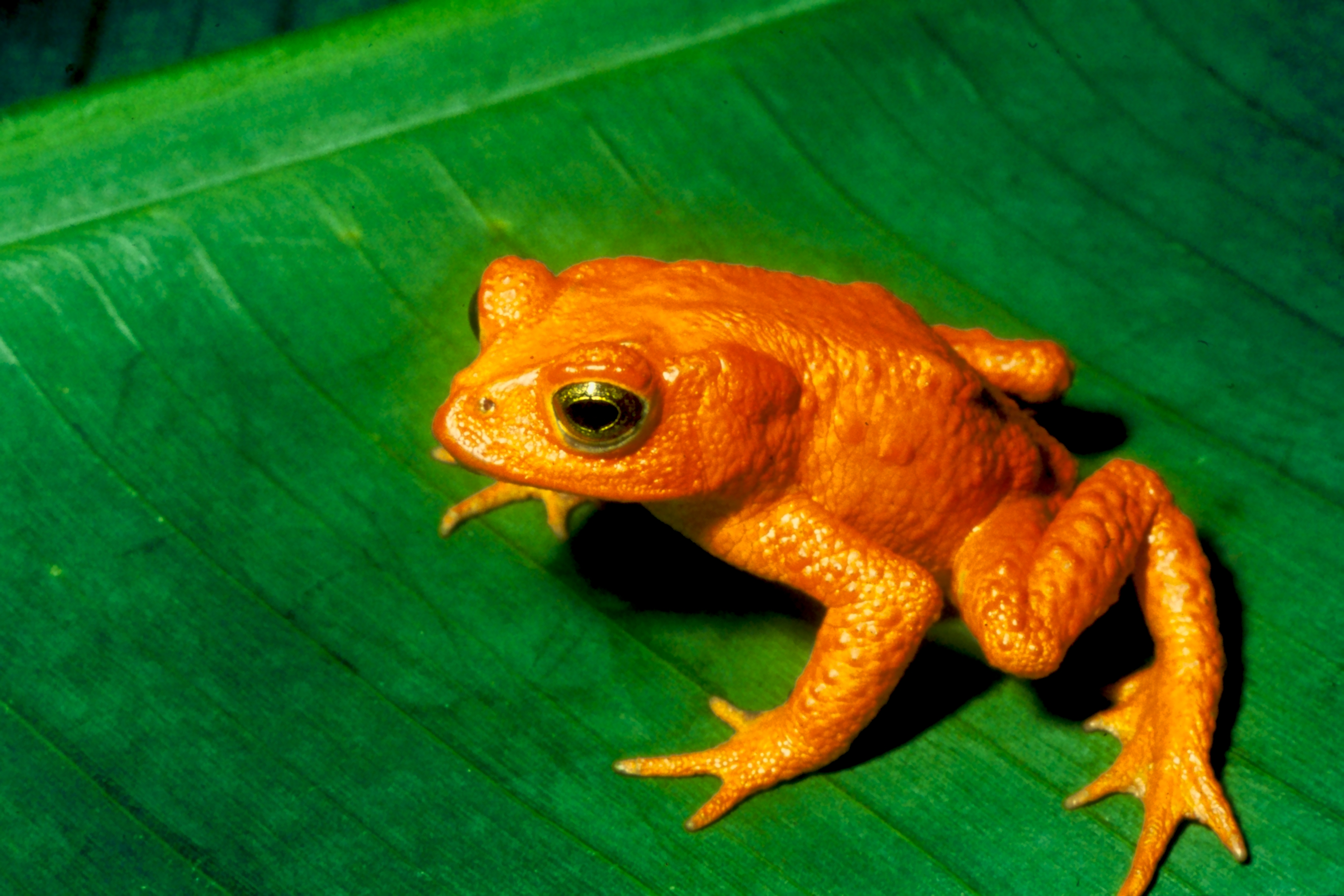 Bufo_periglenes1.jpg collour corrected, degrained and sharpened